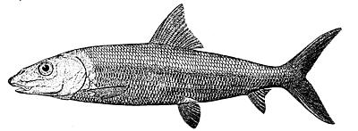 Bonefish (Albula vulpes) from NOAA.